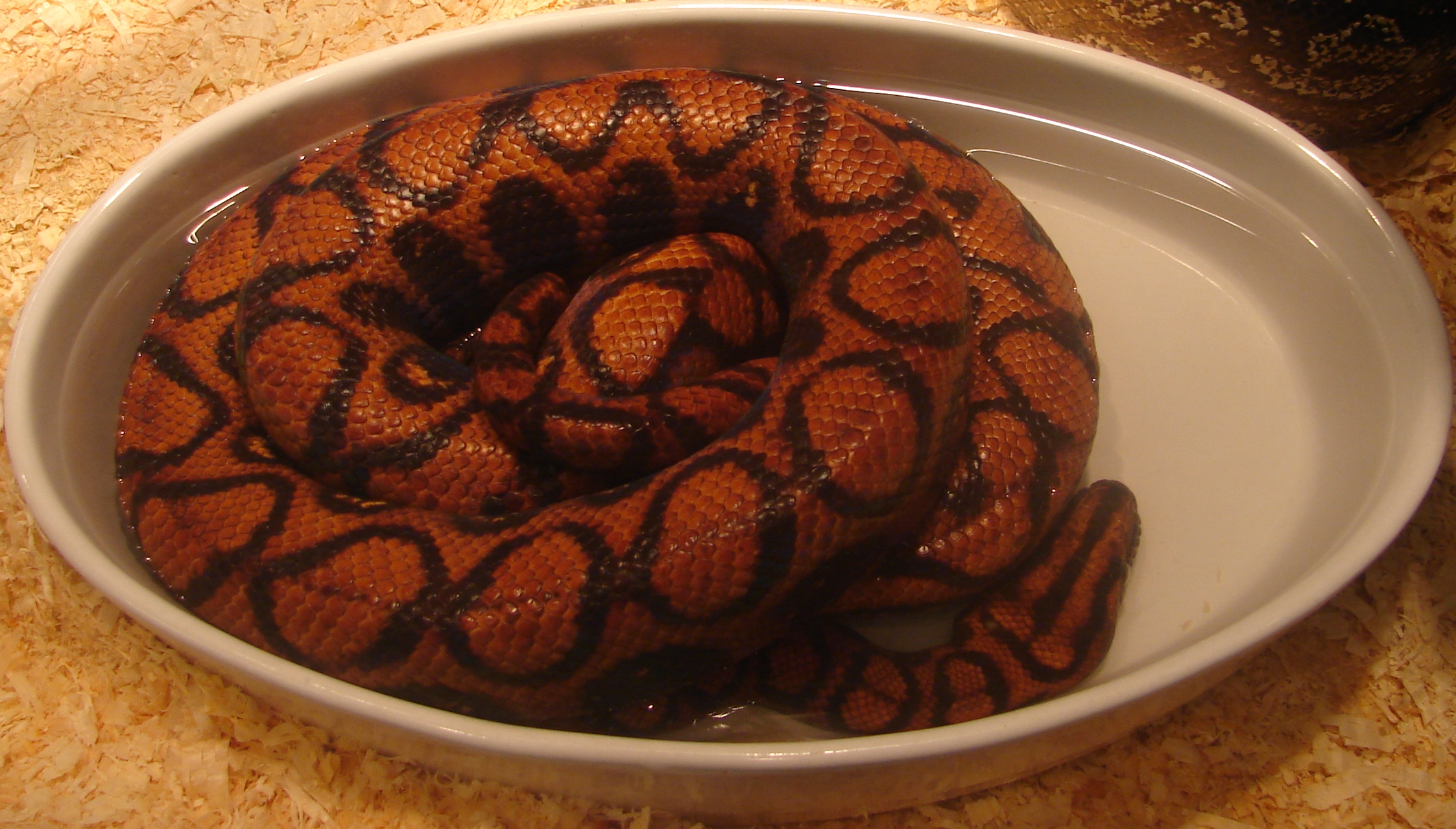 Brazilian rainbow boa at Reptile Museum outside Monroe, Washington.